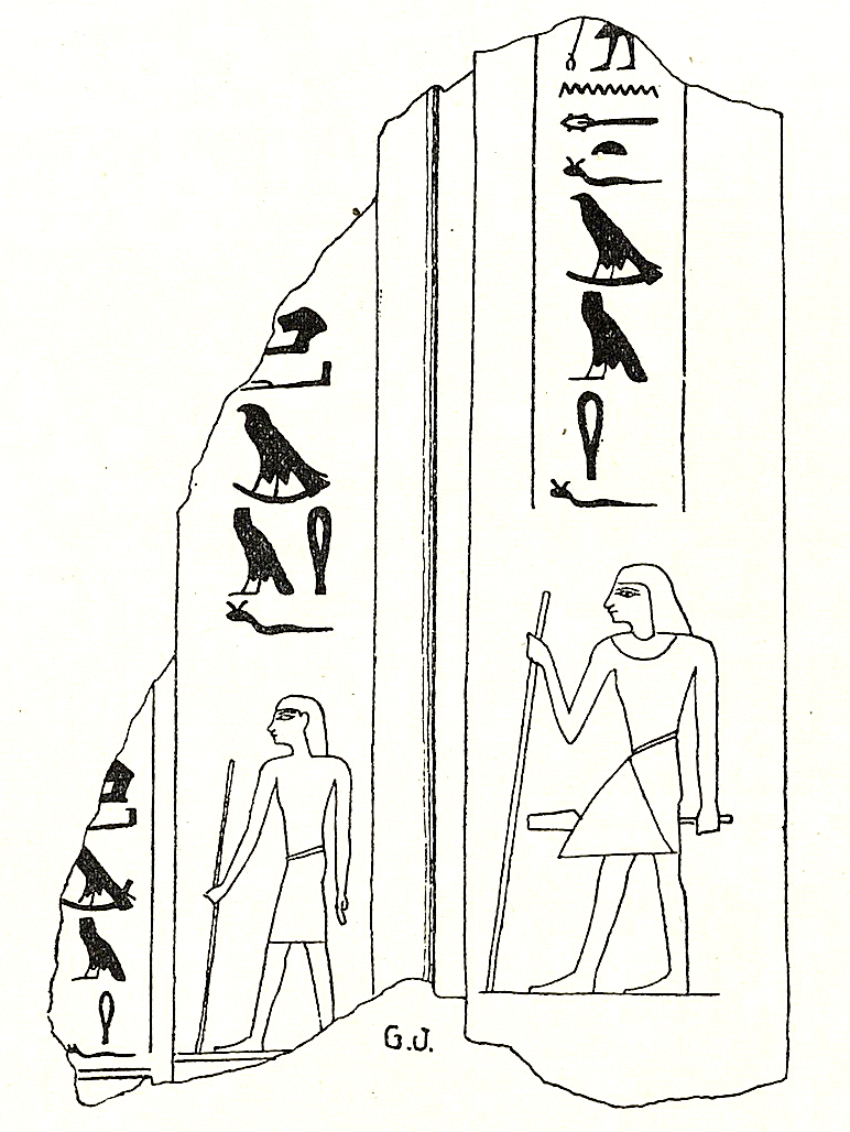 False door fragment of Nemtyemsaf II from the mortuary temple of the pyramid of Neith